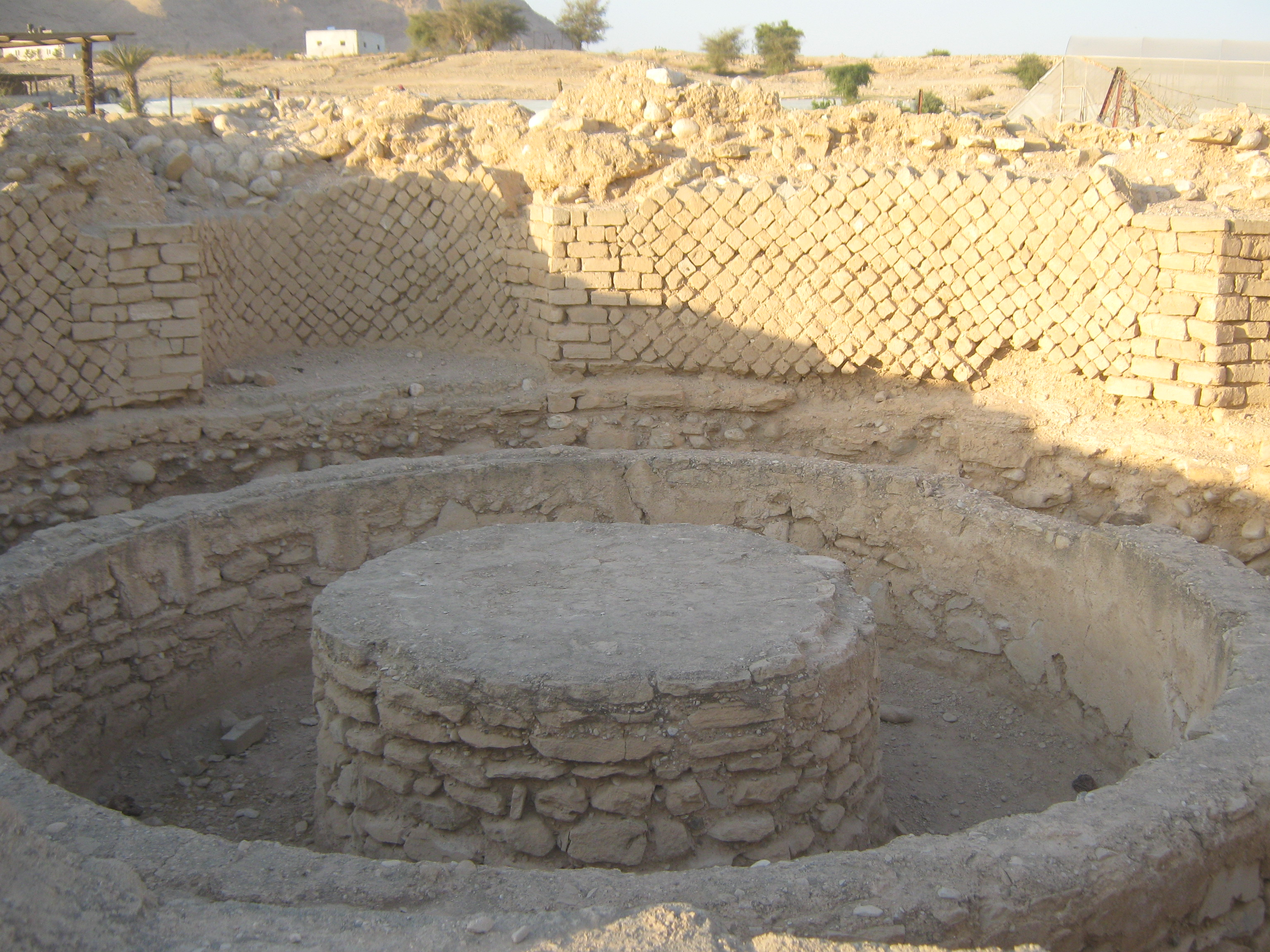 Herodian bath at Jericho